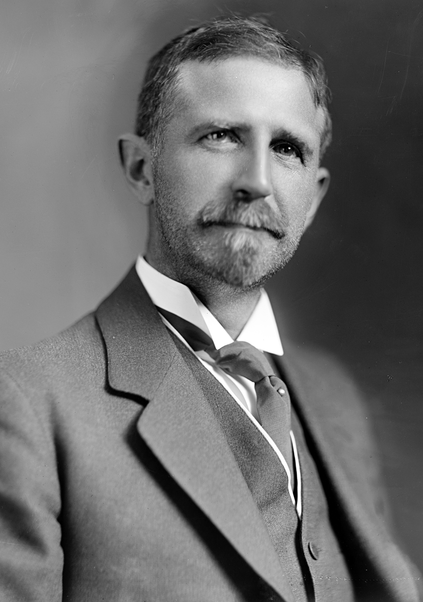 Roger Babson, entrepreneur und business theorist from Massachusetts